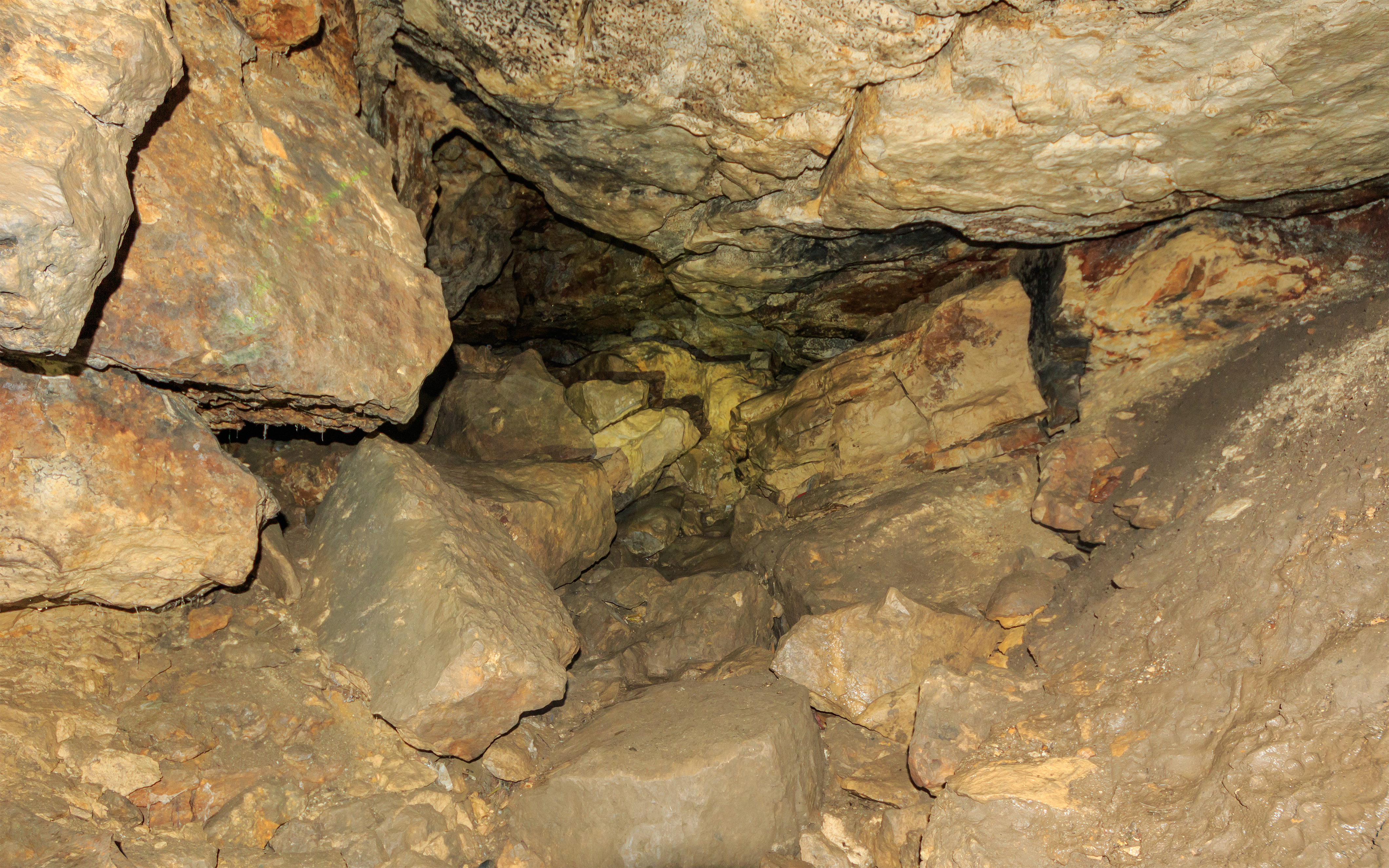 Inside the former limestone quarries of Syany, near Domodedovo, Moscow Oblast (Russia).